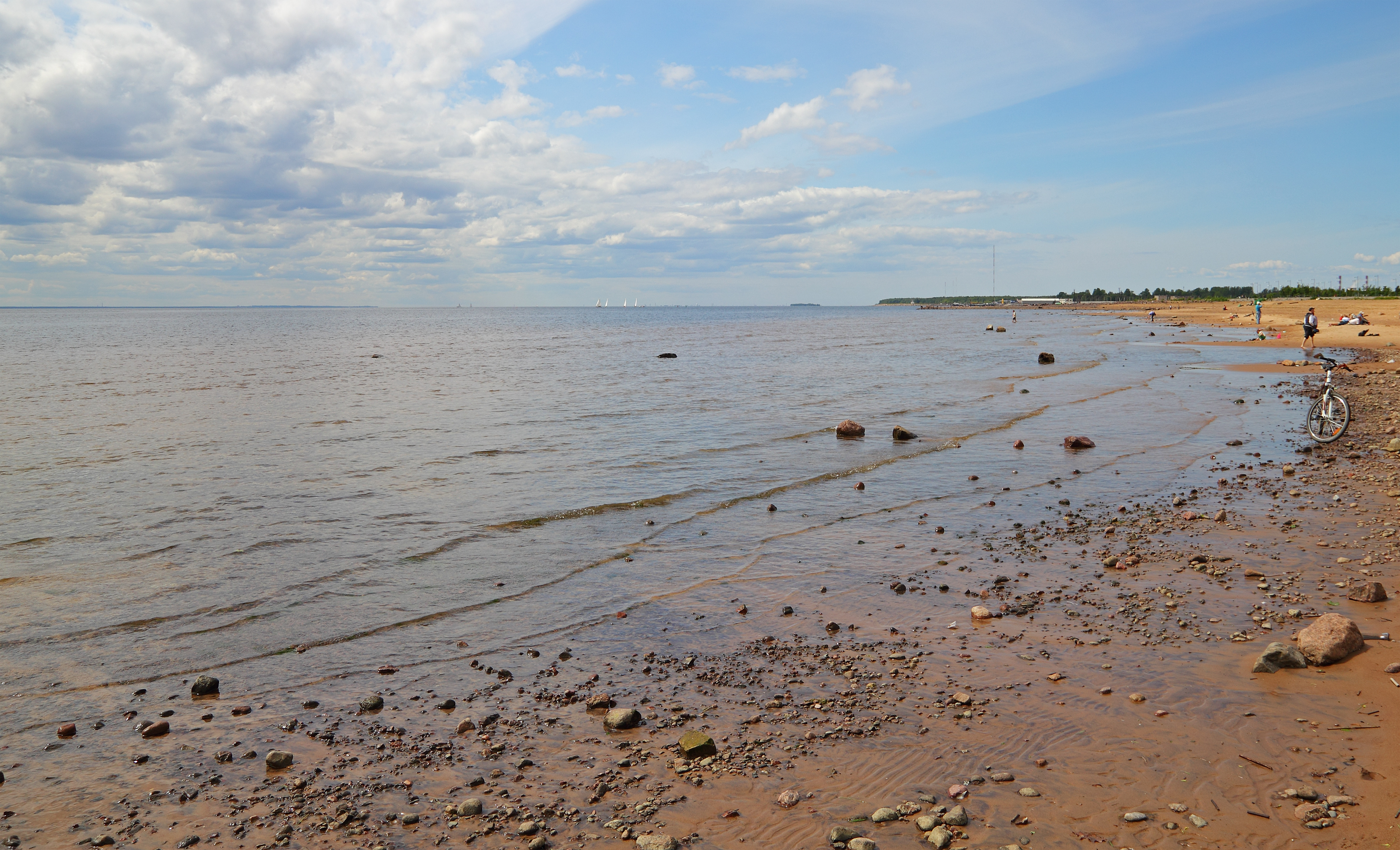 St. Petersburg, Russia: Park of the 300th Anniversary of St. Petersburg.